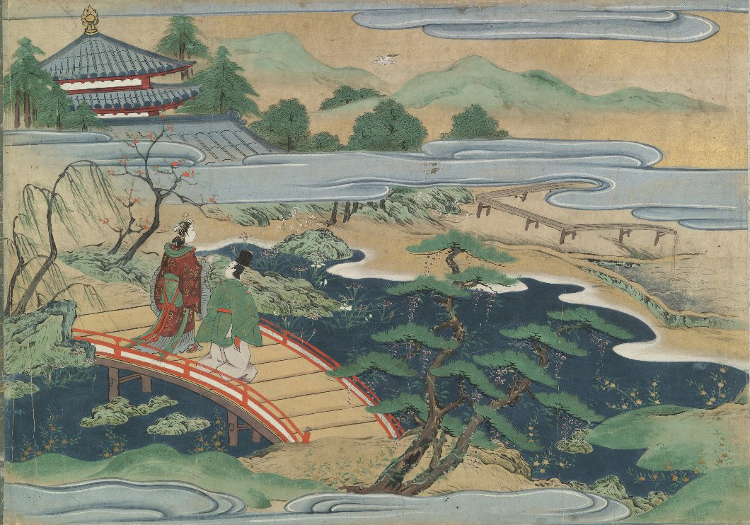 The season of summer in the kingdom under the sea; Urashima walking on a bridge with the queen Otohime Japanese handscroll or emakimono of a Japanese folk tale of the fisherman Urashima Taro, having saved a turtle’s life, transported to Horai, a Turtle palace as the guest of Princess Otohime. On his return he finds that many years have passed in his home village. Opening a magic box given to him by Otohime, he ages. Written in Japan, late 16th or early 17th century. Shelfmark: MS. Jap. c.4(R)